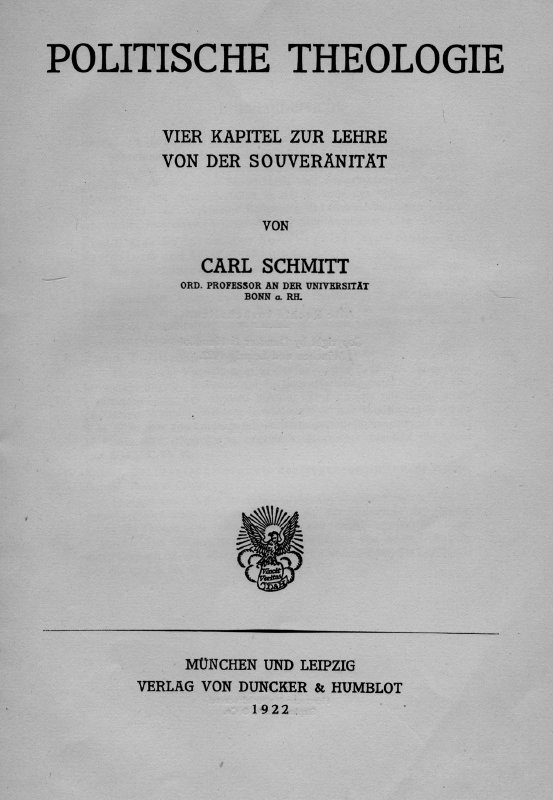 Title page